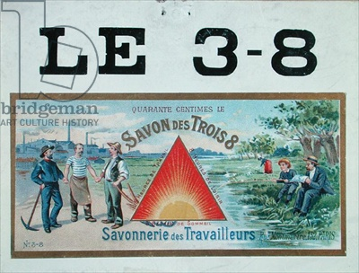 Advertisement for '3x8' brand soap, stands for 8 hours of work, 8 hours of leisure and 8 hours of sleep.